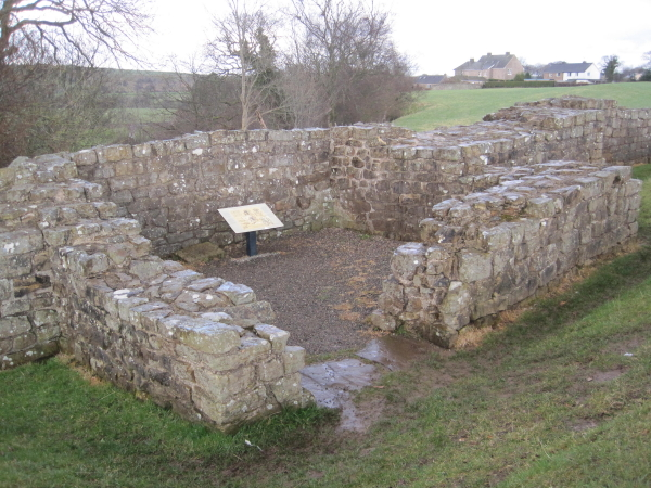 Turret 48A near Willowford, near to Gilsland, Cumbria, Great Britain.